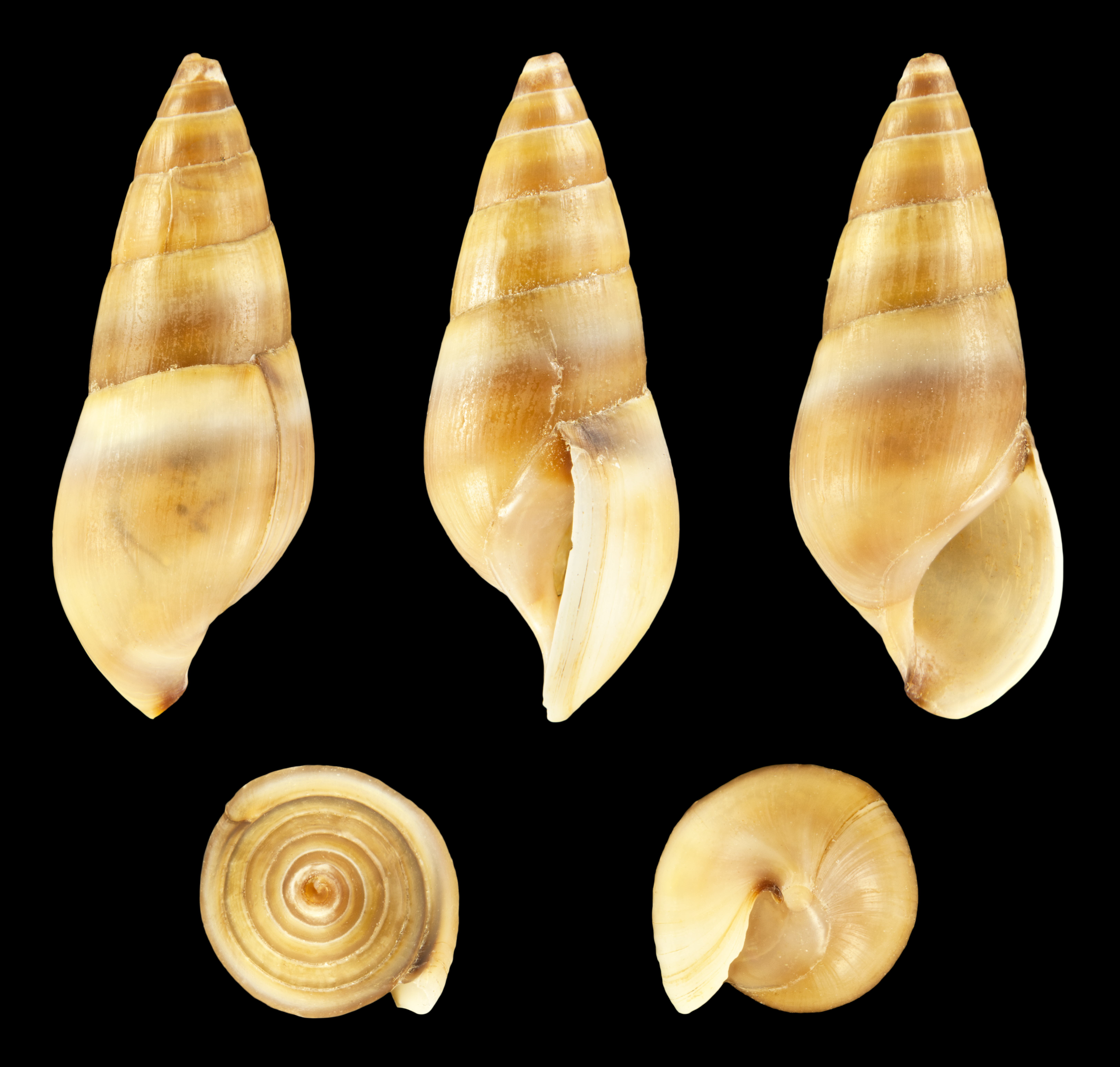 Esperiana daudebartii acicularis (Ferussac, 1823); Length 1.7 cm; Originating from the Lake Yalpuh west of Izmail, Ukraine. Shell of own collection, therefore not geocoded.